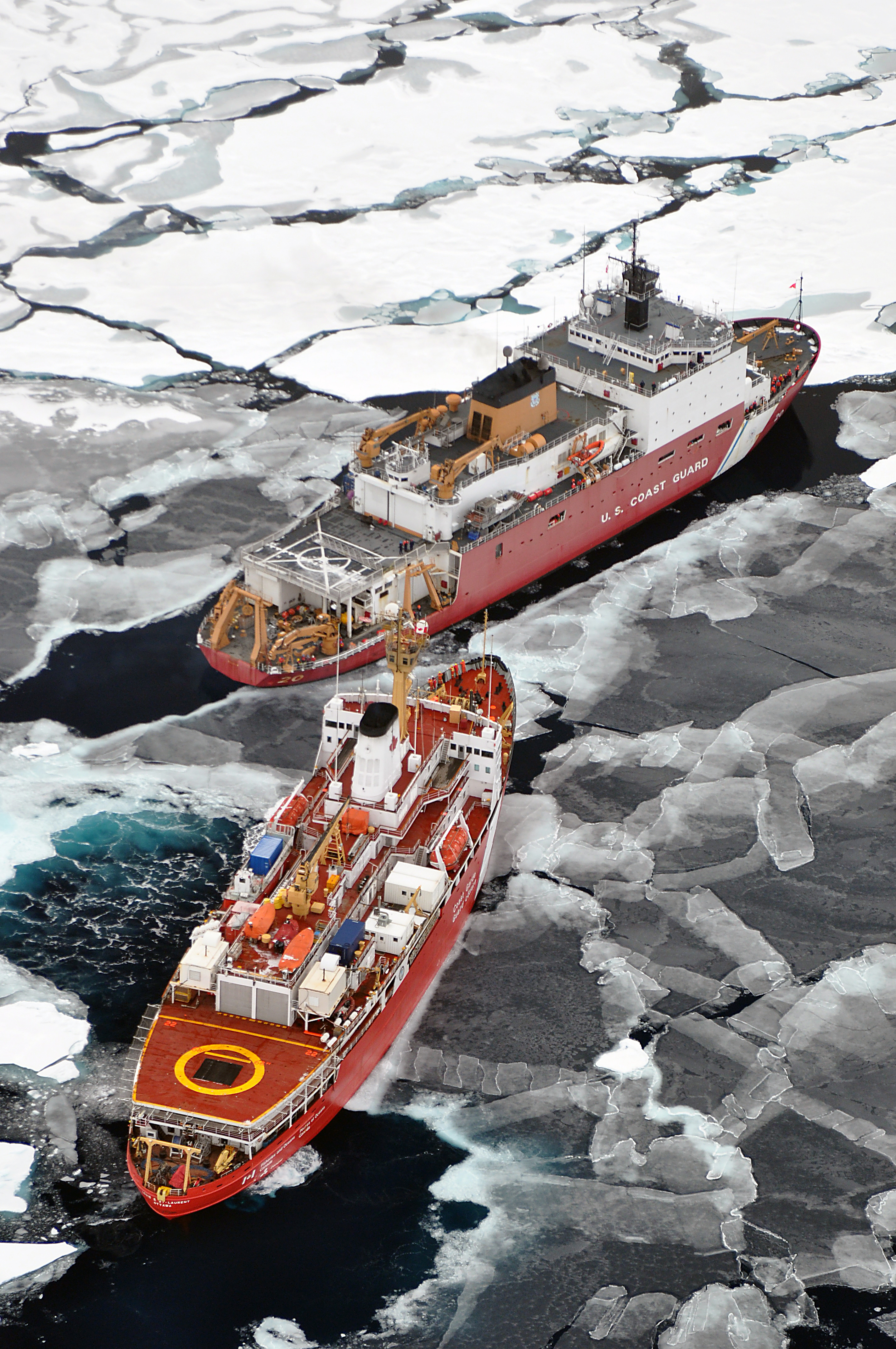 Bow Thrusters: ARCTIC OCEAN – The Canadian Coast Guard Ship Louis S. St-Laurent makes an approach to the Coast Guard Cutter Healy in the Arctic Ocean Sept. 5, 2009. The two ships are taking part in a multi-year, multi-agency Arctic survey that will help define the Arctic continental shelf.